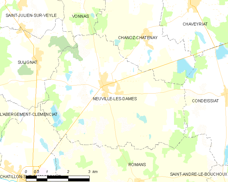 Map of French commune: Neuville-les-Dames Map commune FR insee code 01272.png